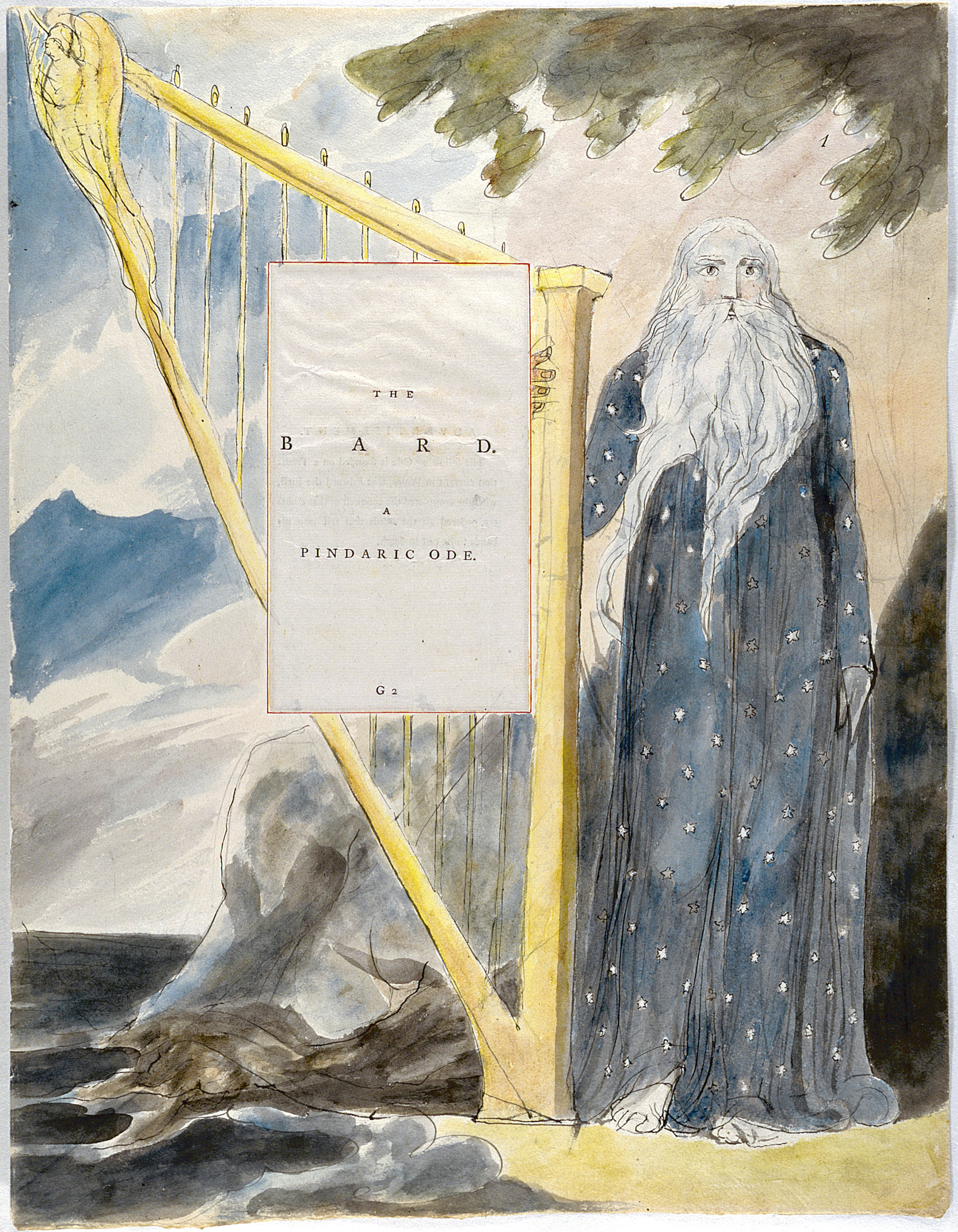 William Blake - The Poems of Thomas Gray, Design 53 The Bard 01